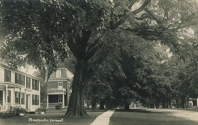 View of Manchester, Vermont; from a postmarked 1913 postcard.